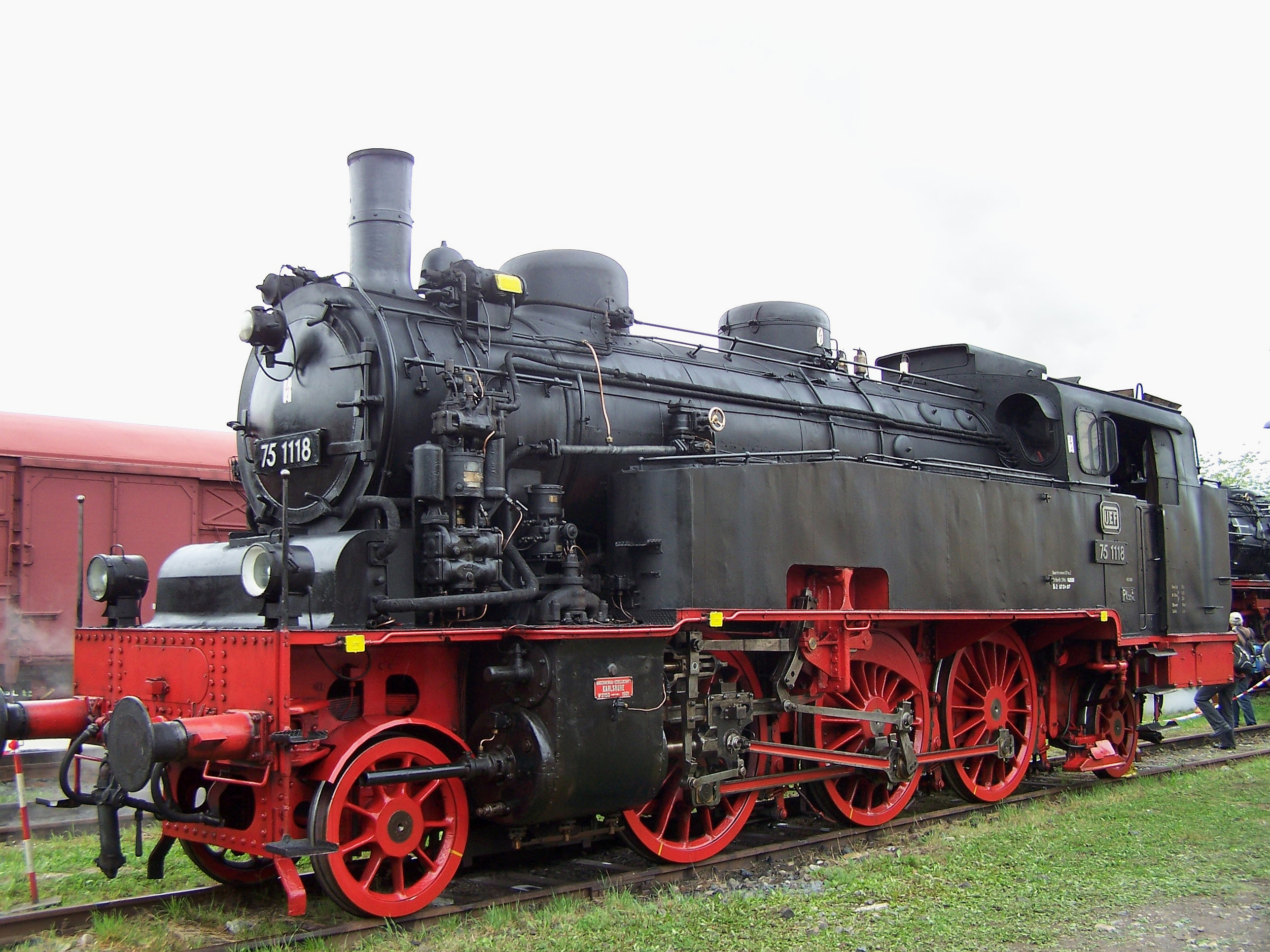 German steam locomotive 75 No 1118 in Meiningen Steam Locomotive Works, Germany, September 1st, 2007